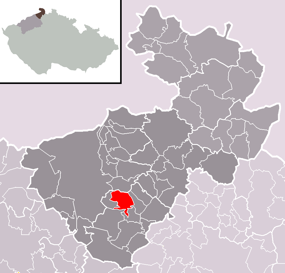 Location of Benešov nad Ploučnicí town within Děčín District and administrative area of Děčín as a Municipality with Extended Competence.